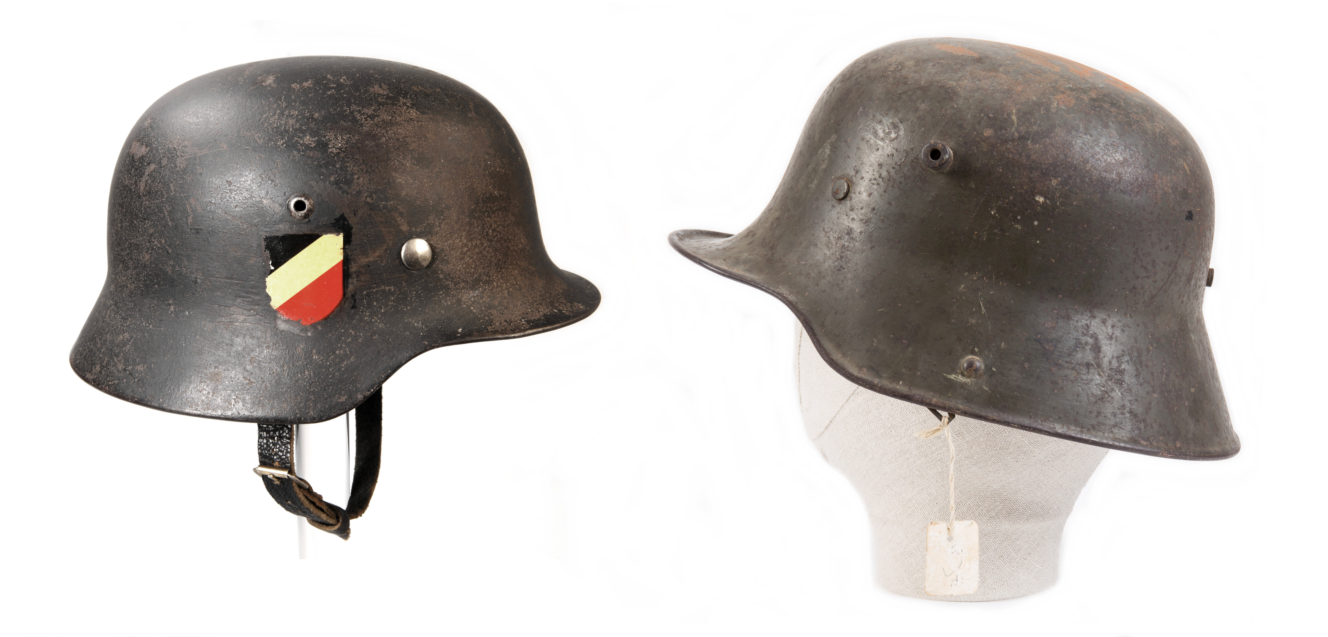 M35 (left) and M16 (right) German helmets